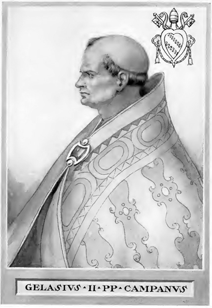 This illustration is from The Lives and Times of the Popes by Chevalier Artaud de Montor, New York: The Catholic Publication Society of America, 1911. It was originally published in 1842.